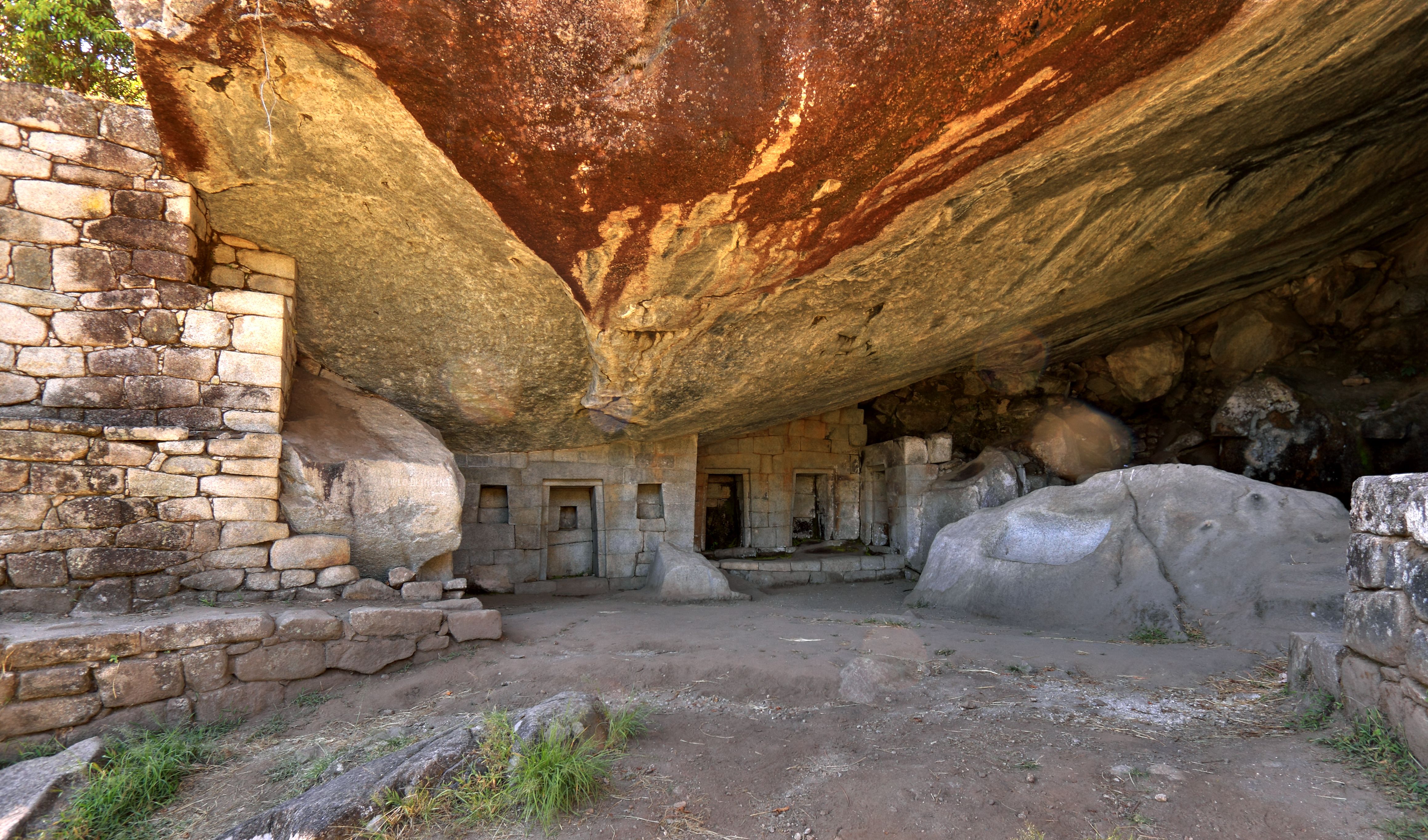 Please, have this description accessible to all by translating it in different languages.